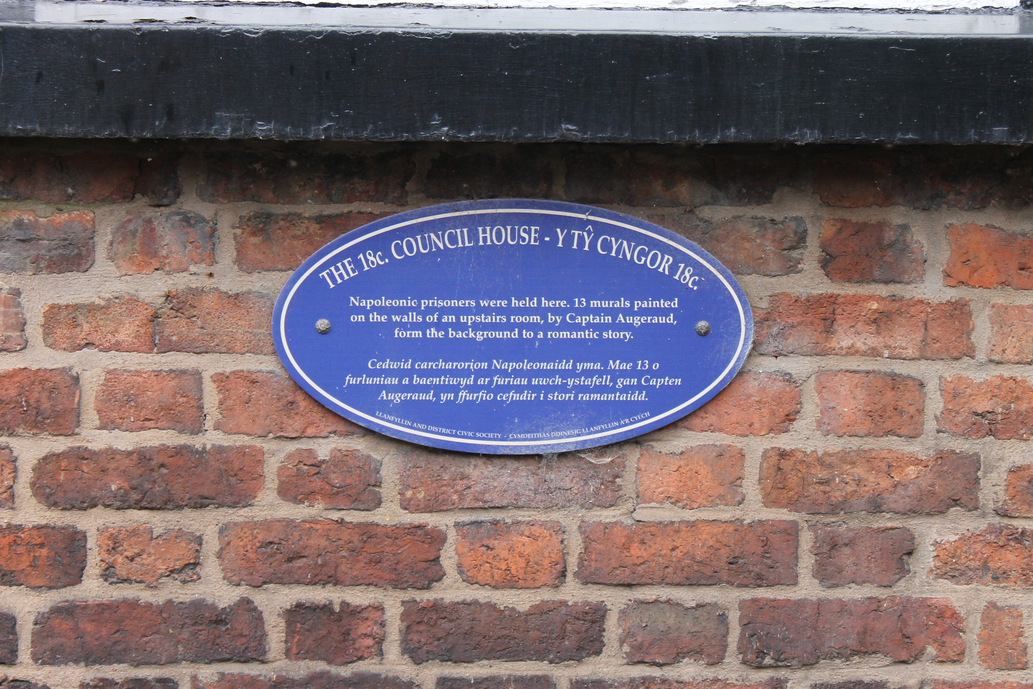 Plaque on wall of hours opposite the Church of St Myllin, Llanfyllin, Powys, North Wales. The church is: Grade: II Date Listed: 25 October 1951 Cadw Building ID: 8590